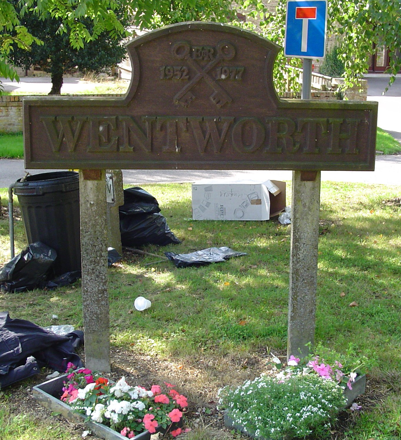 Signpost in Wentworth, Cambridgeshire